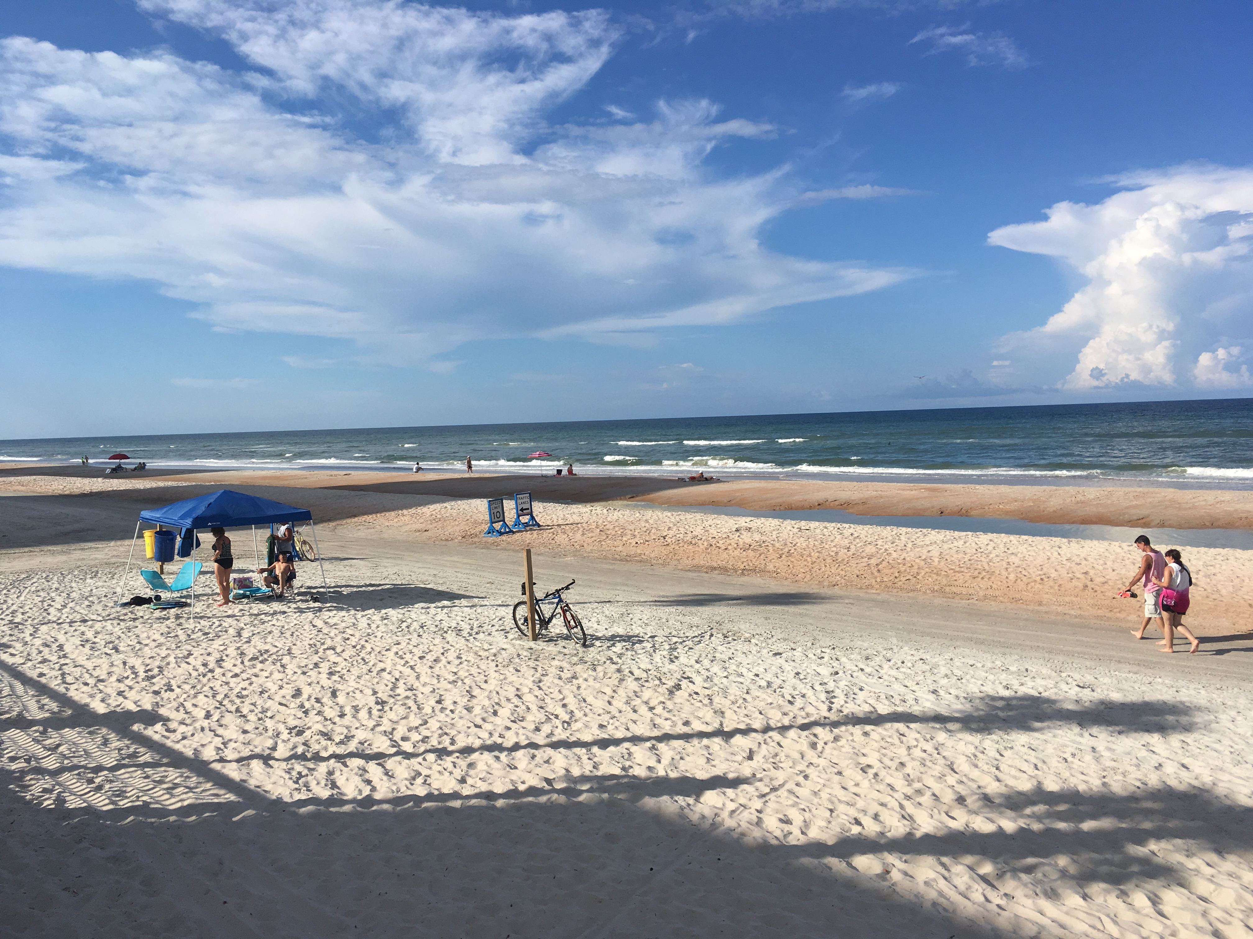 The beach in Daytona Beach, Florida looking north near the border with Ormond Beach, Florida.